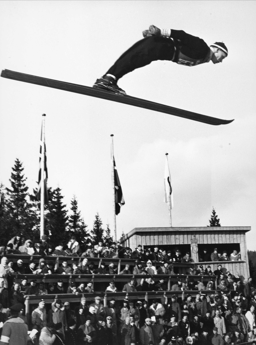 Norwegian Nordic combined skier Gunder Gundersen at the Norwegian championship in Midtstubakken in Oslo, Norway